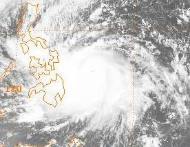 Typhoon Skip